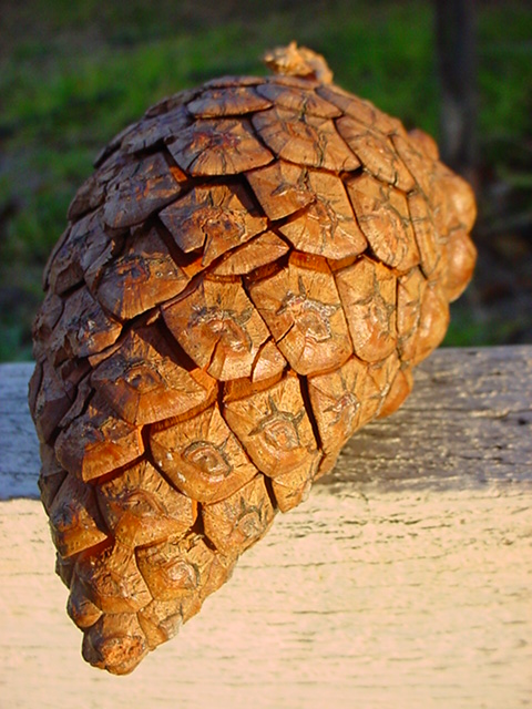 Pinus brutia cone. Cultivated, Australia.